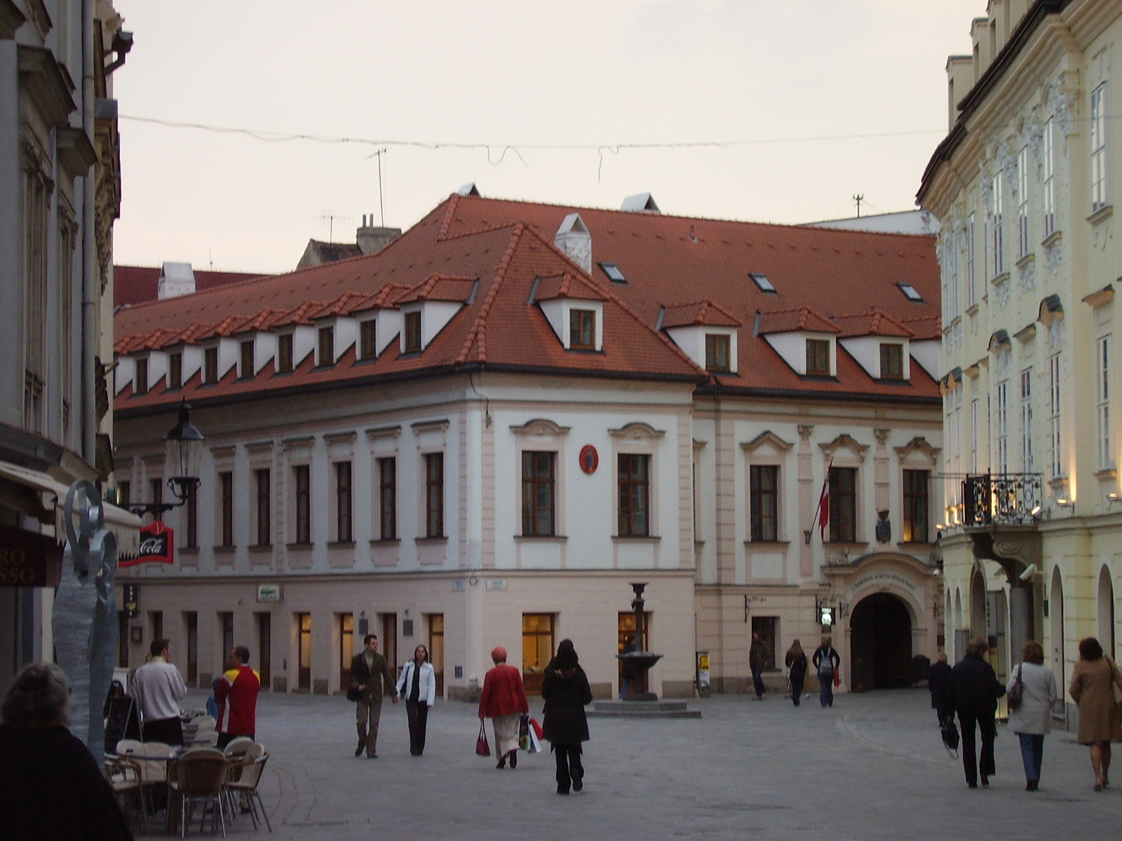 Keglievich Palace, Bratislava